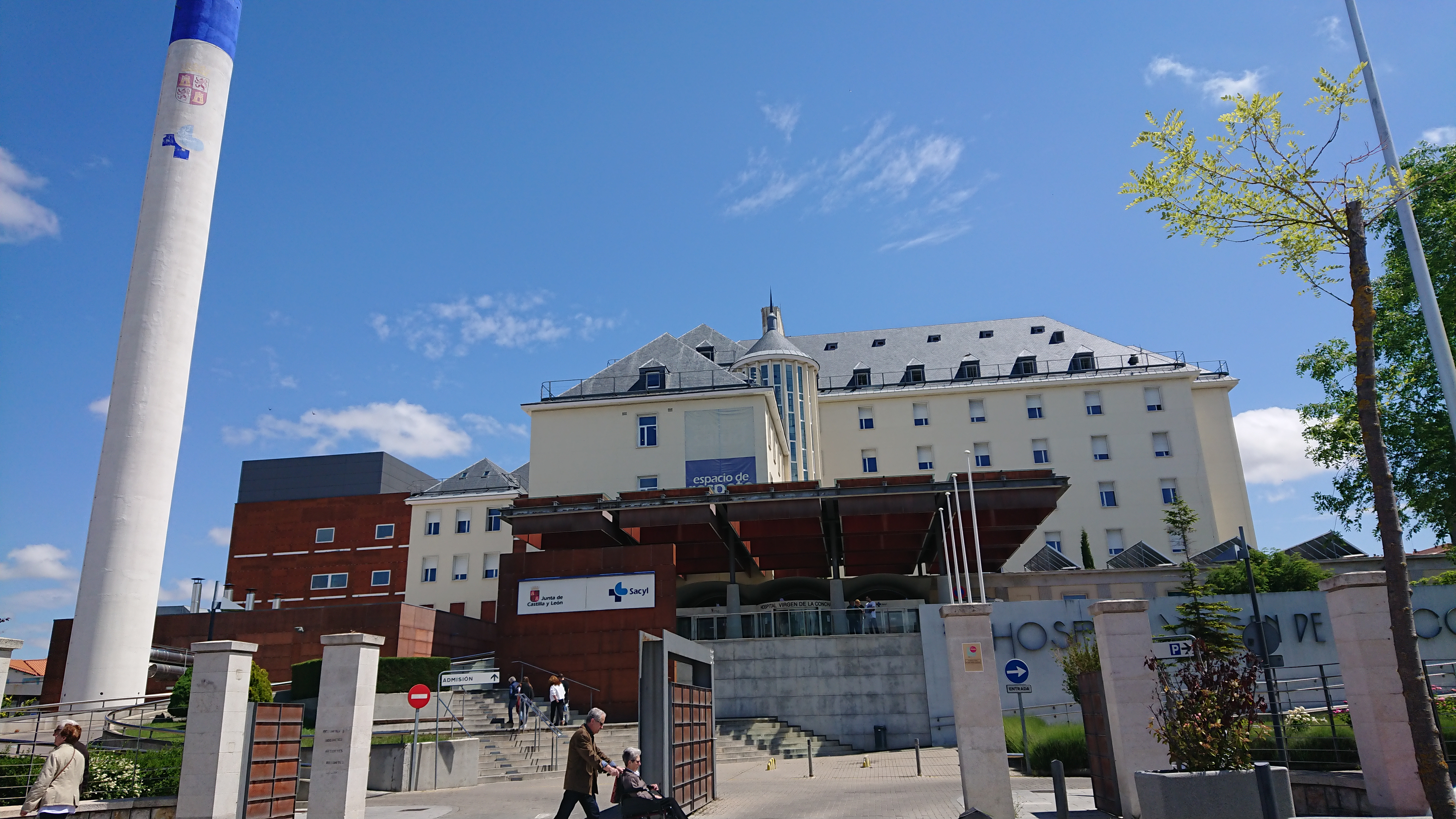 Virgen de la Concha Hospital, Zamora (Spain)